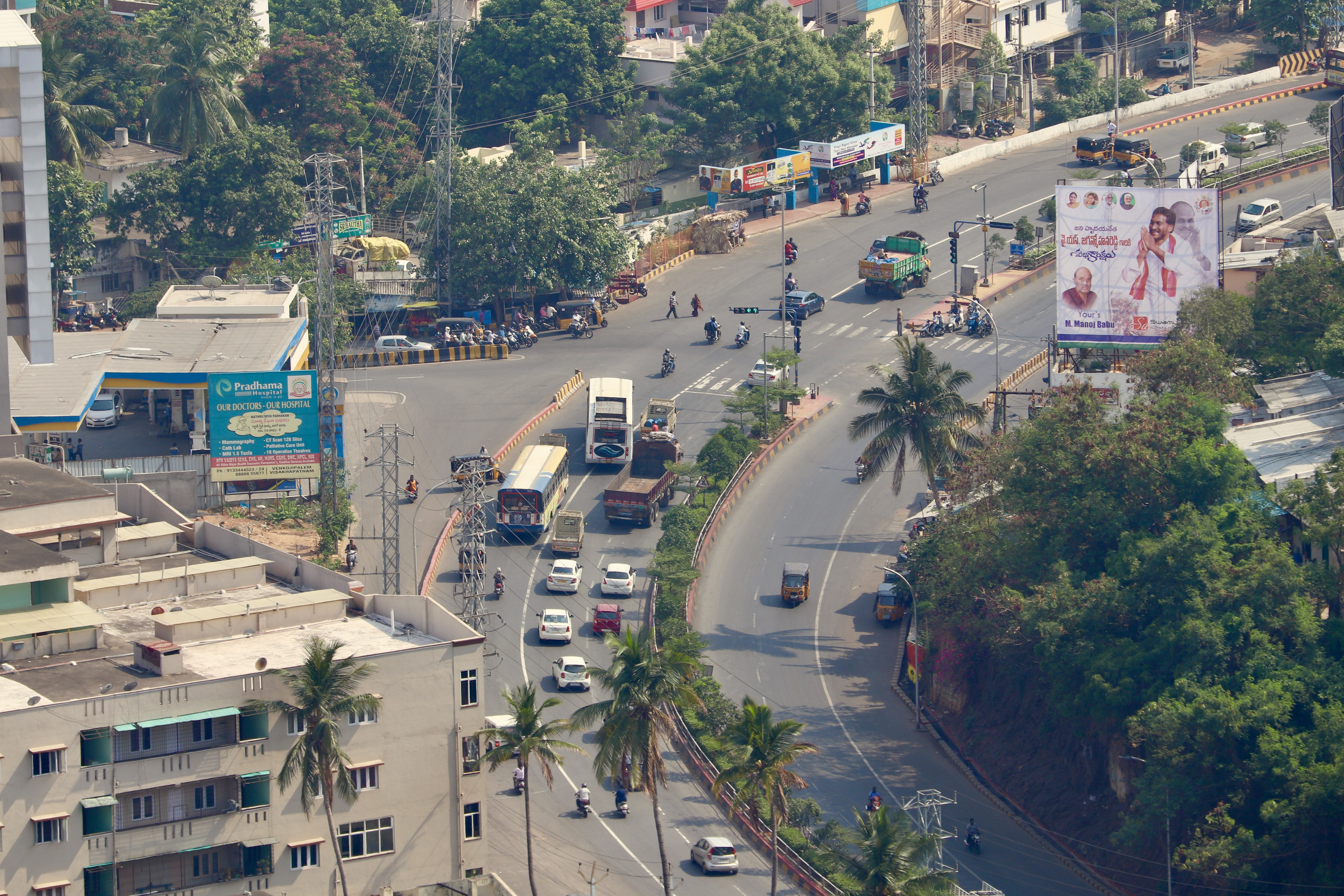 Venkojipalem junction is one of the busiest junctions in Visakhapatnam